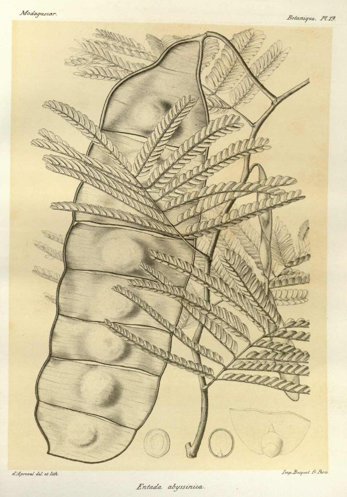 Histoire naturelle des plantes, Baillon, H.1827-1895. Drake del Castillo, E.1855-1904. Publication:Paris:Imprimerie Nationale,1886-1903